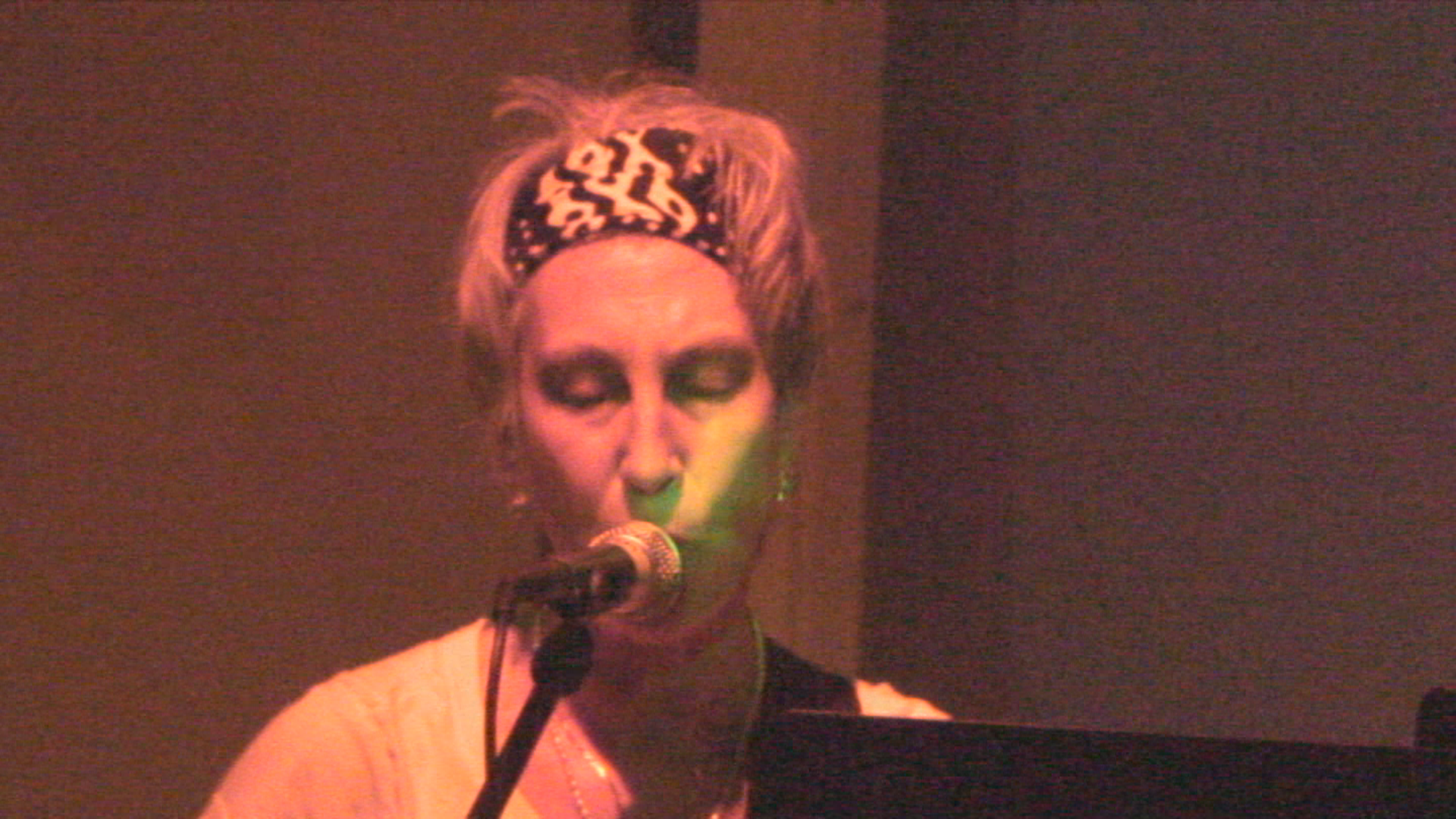 Nina Canal performing with Ut at Issue Project Room NYC on November 5 2010